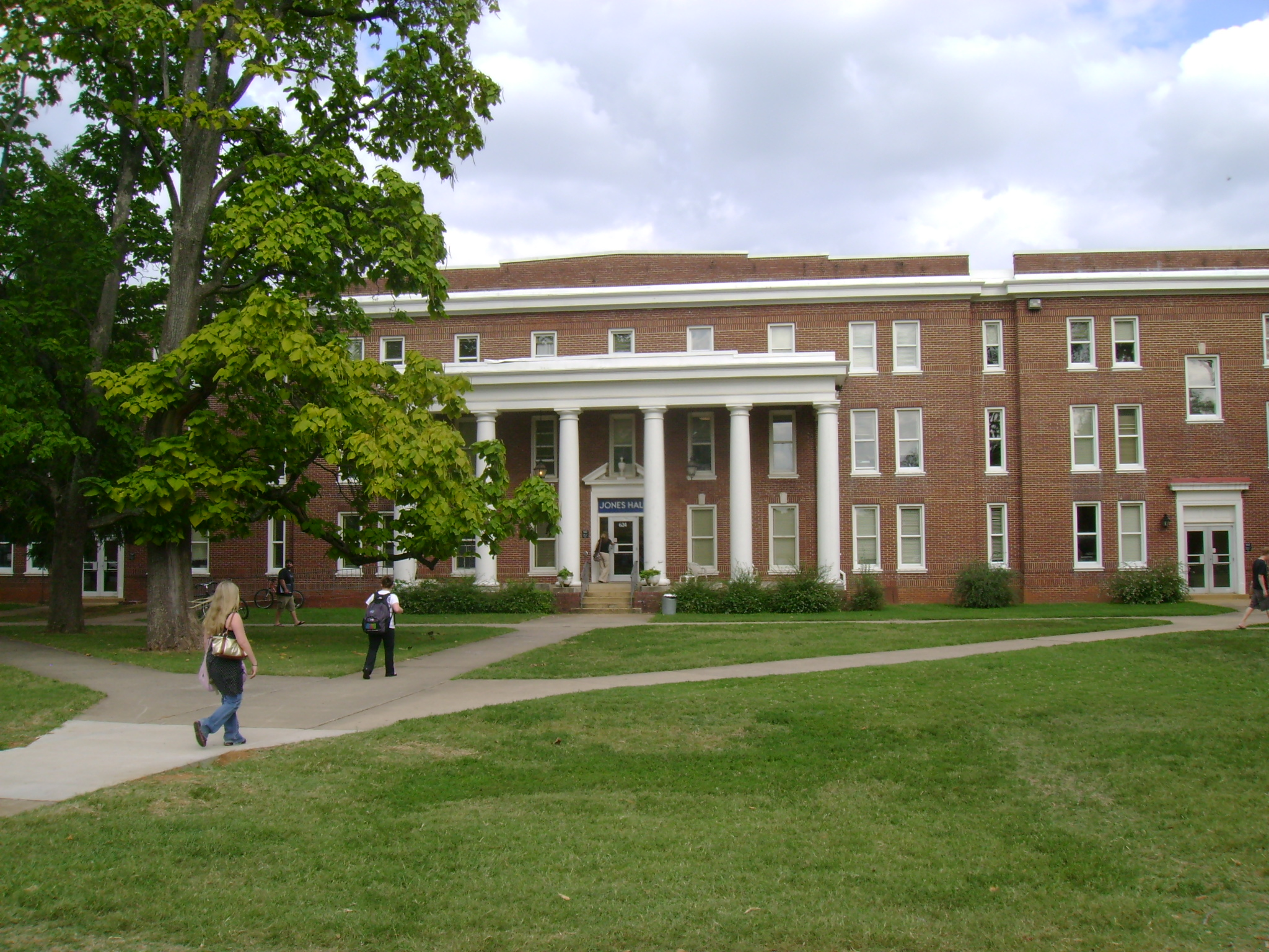 Jones Hall